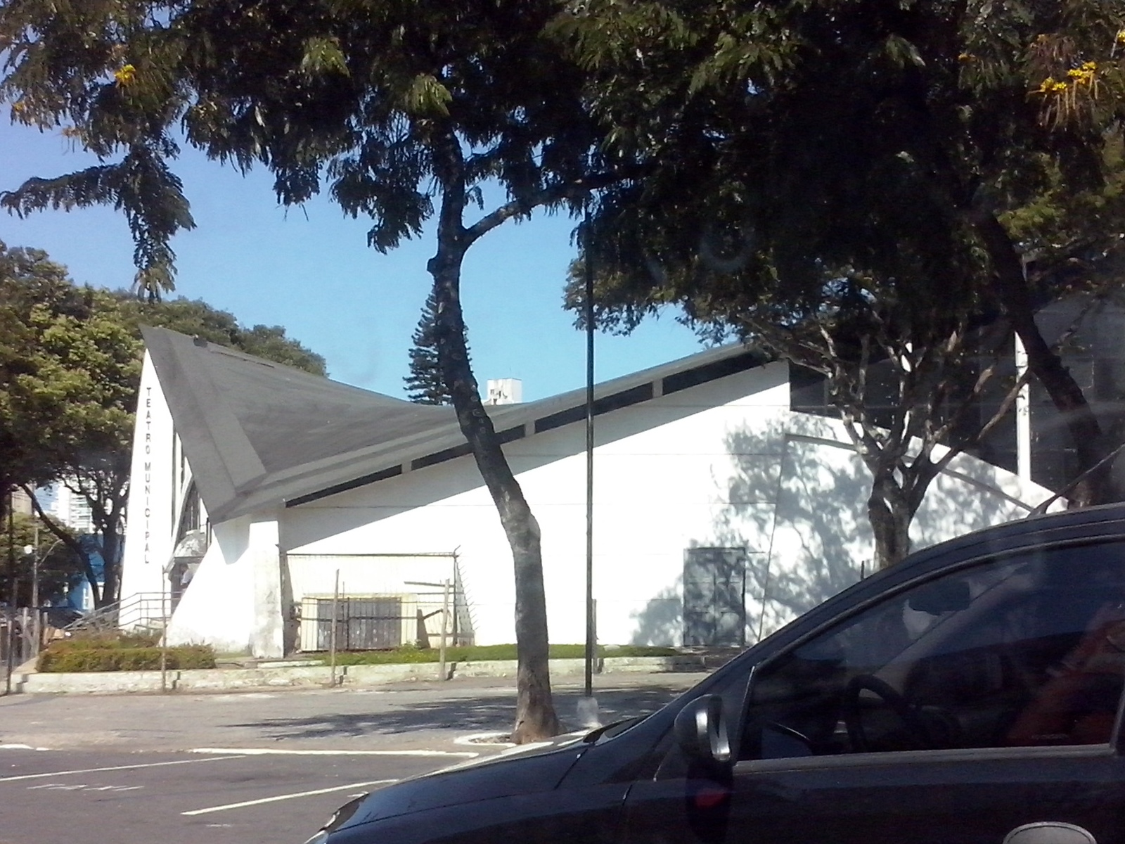 Municipal Theater of Vila Velha, Espírito Santo, Brazil.